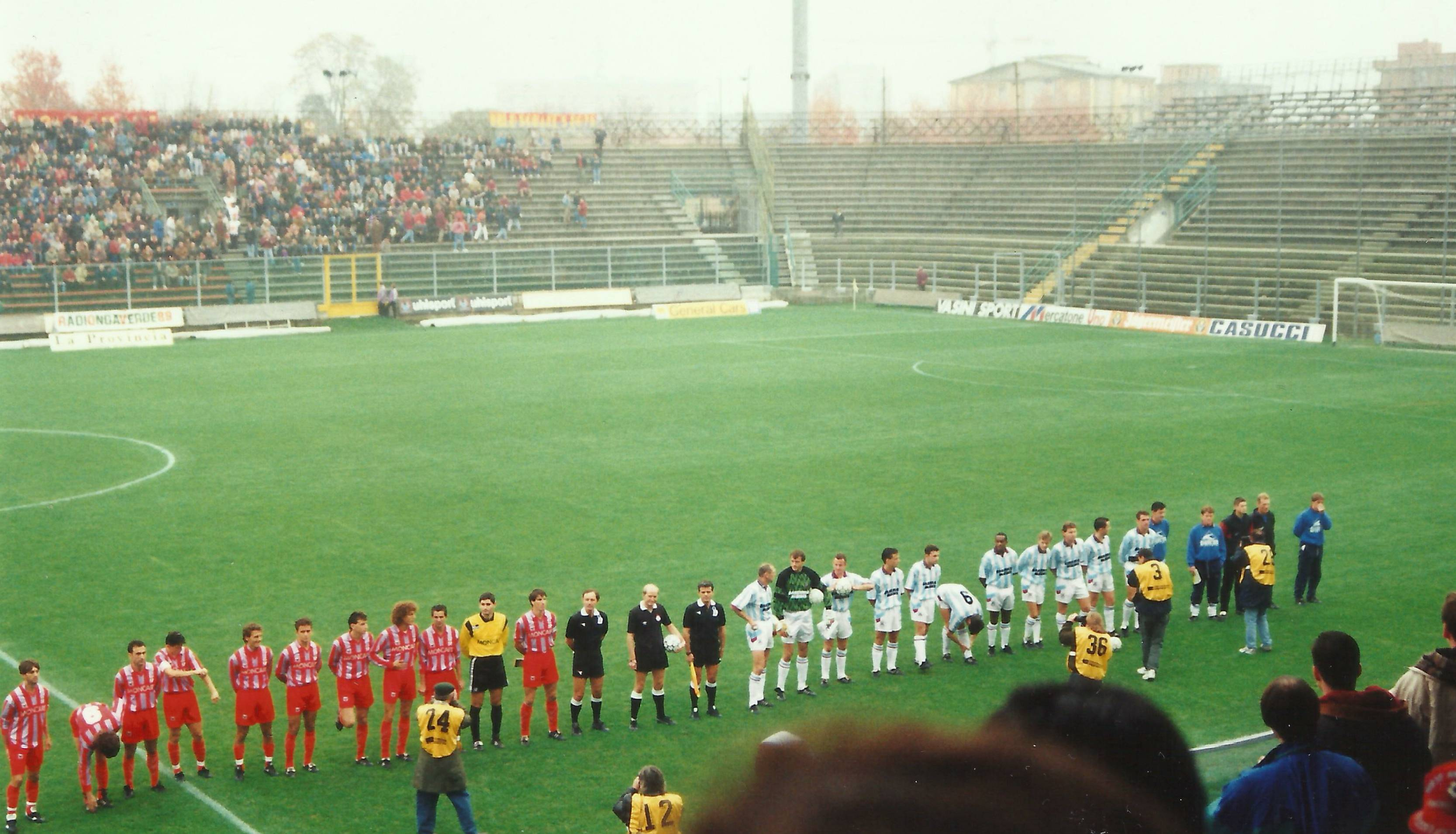 Cremonese, in red, line up at home against West Ham United in the Anglo-Italian Cup, 11 November 1992